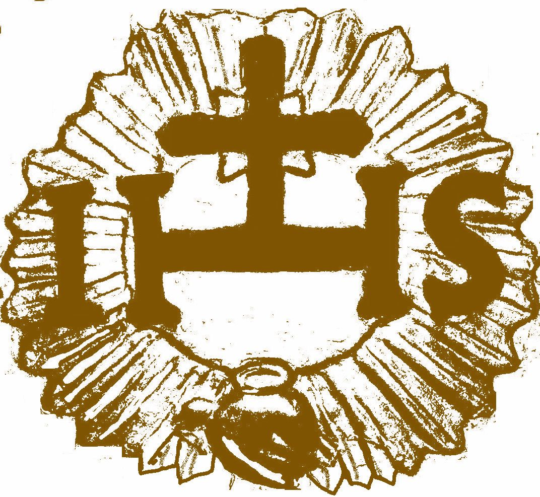 Coat of arms of Holy Name of God Brotherhood of Taranto